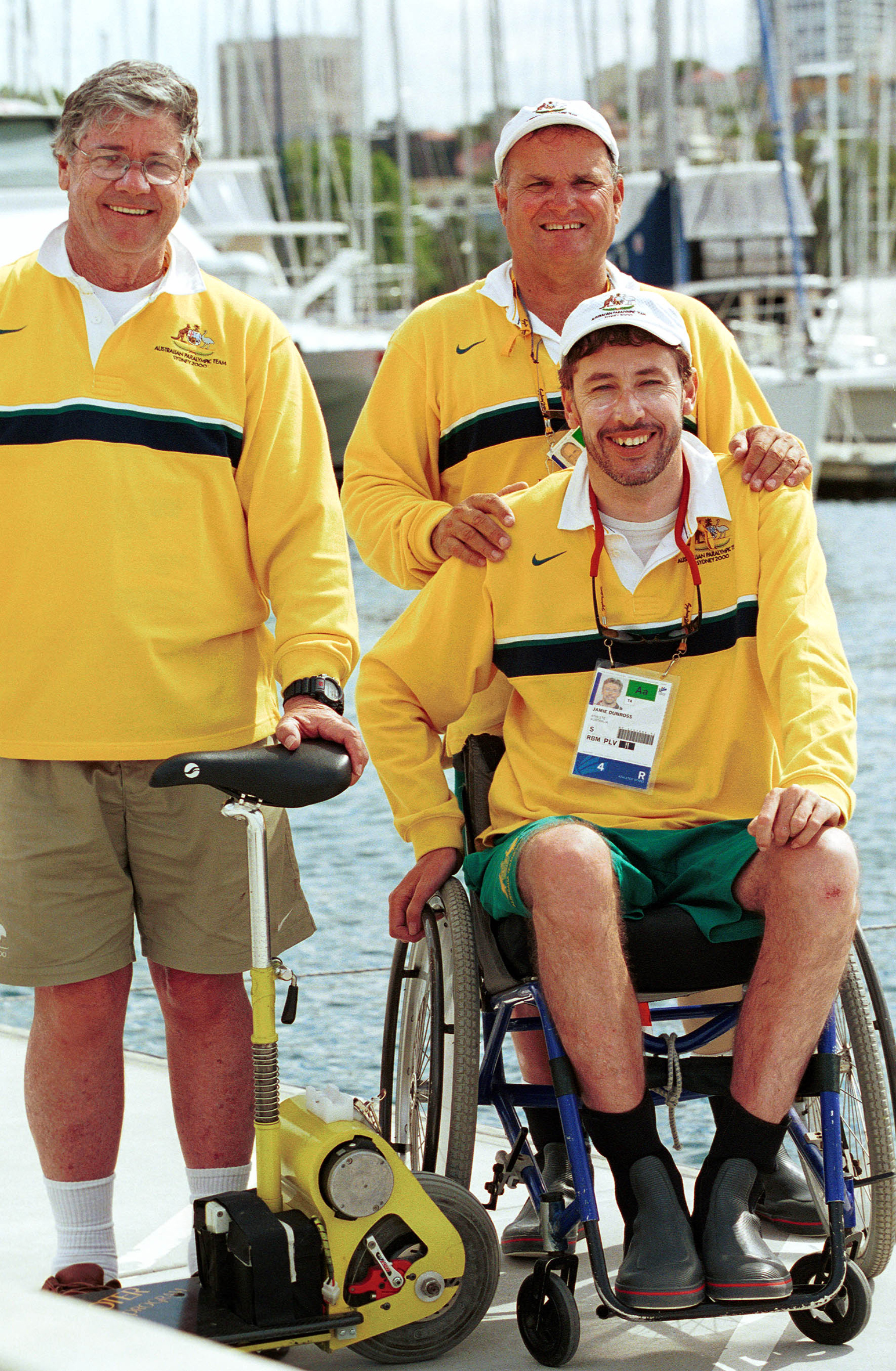 Candid portrait of Australian sailors (seen left to right): Noel Robins, Graeme Martin and Jamie Dunross (seated) at Sydney Harbour during the 2000 Sydney Paralympic Games